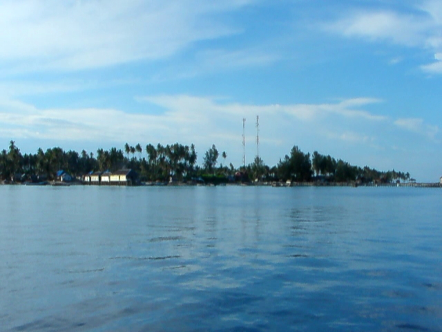 derawan face sud